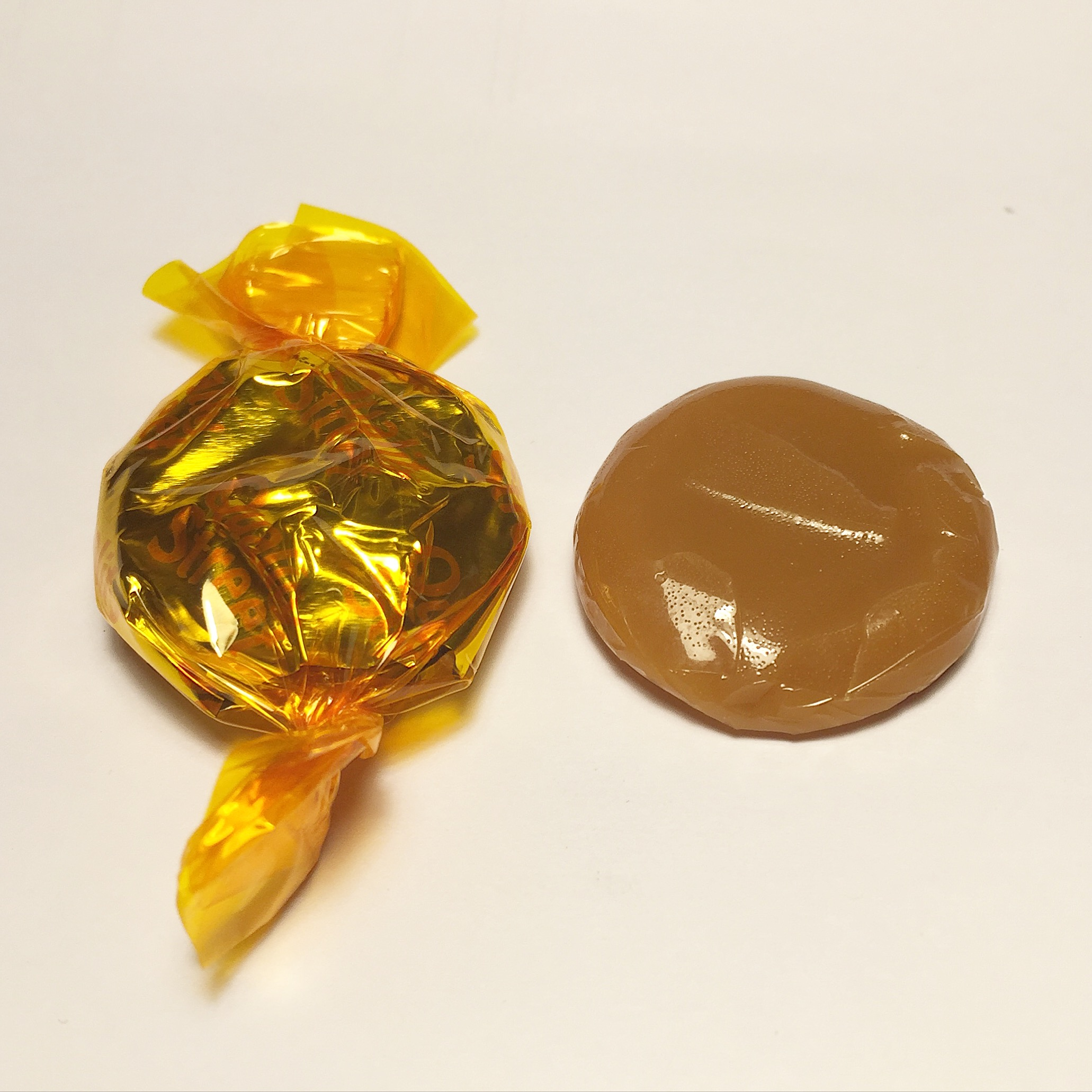 Toffee Penny (Feb 2016, London UK)